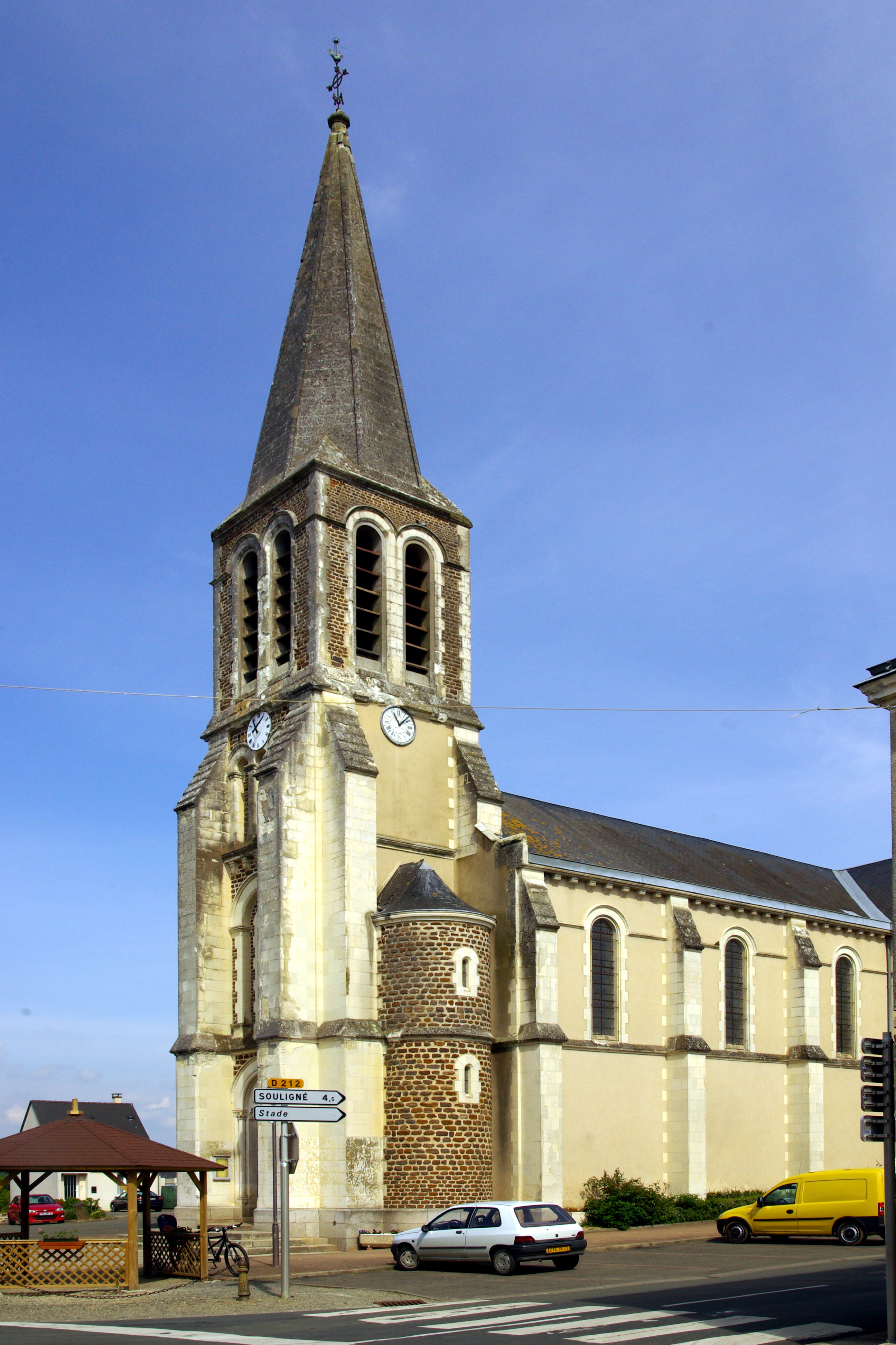 Church Louplande